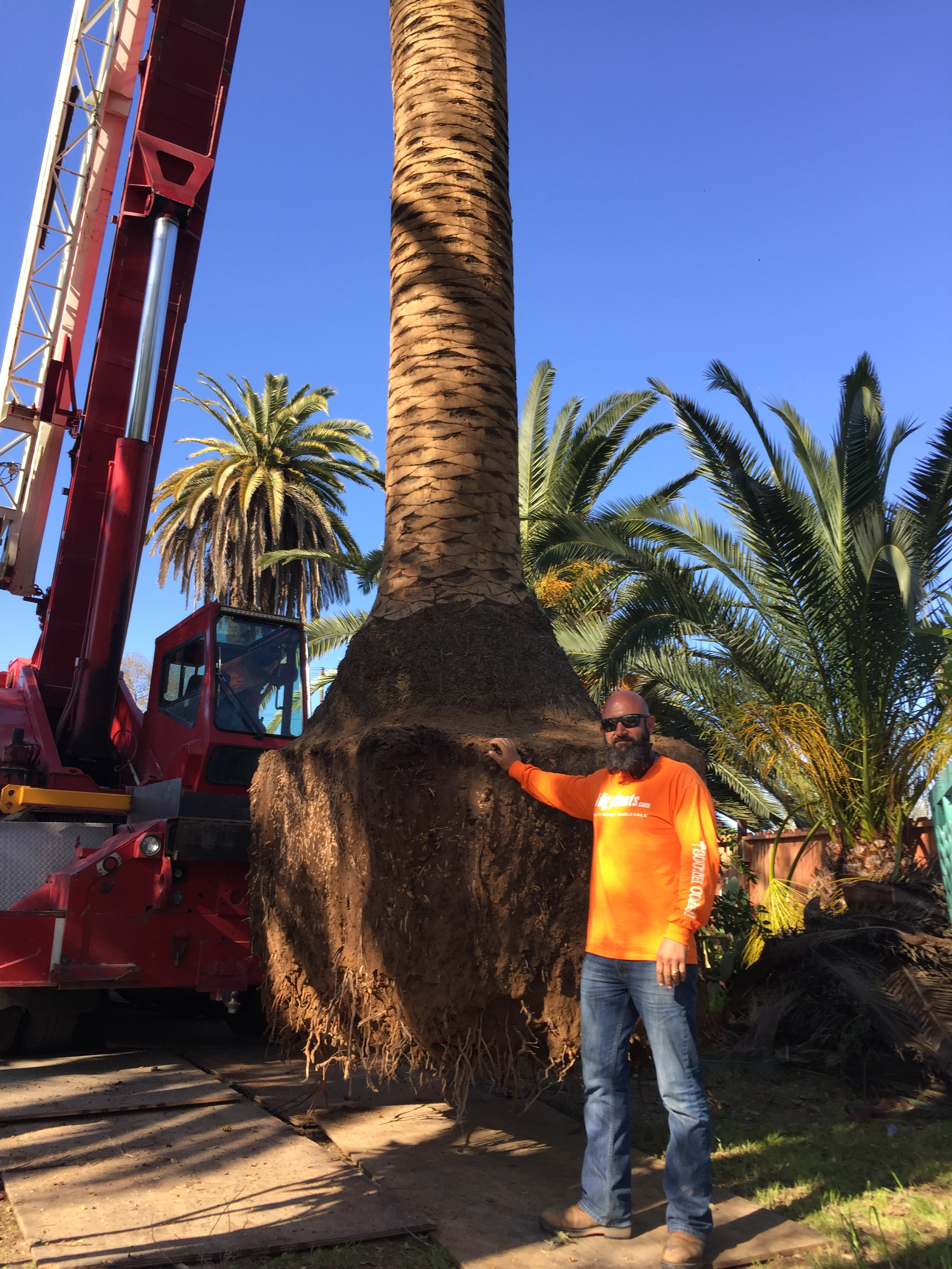 Root ball of a Phoenix canariensis, Canary Island Date Palm. The palm tree pictured here weighed 38,000 pounds